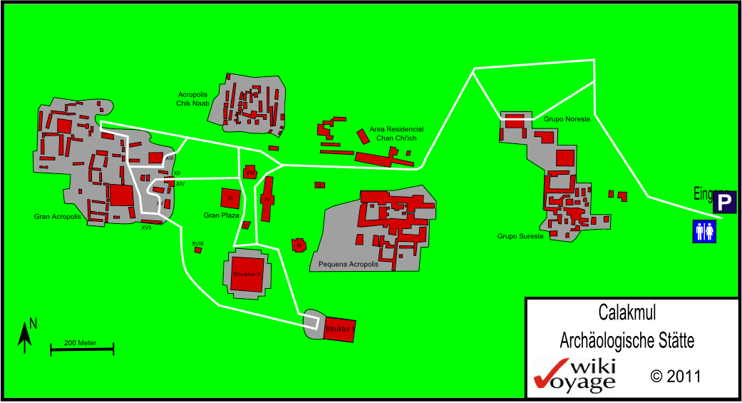 Map of Calakmul